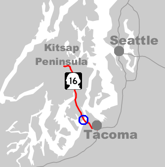 The blue circle marks the location of the Tacoma Narrows Bridge. Credit should go to user PHenry for creating the base image at and the route shield at